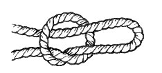 line art drawing